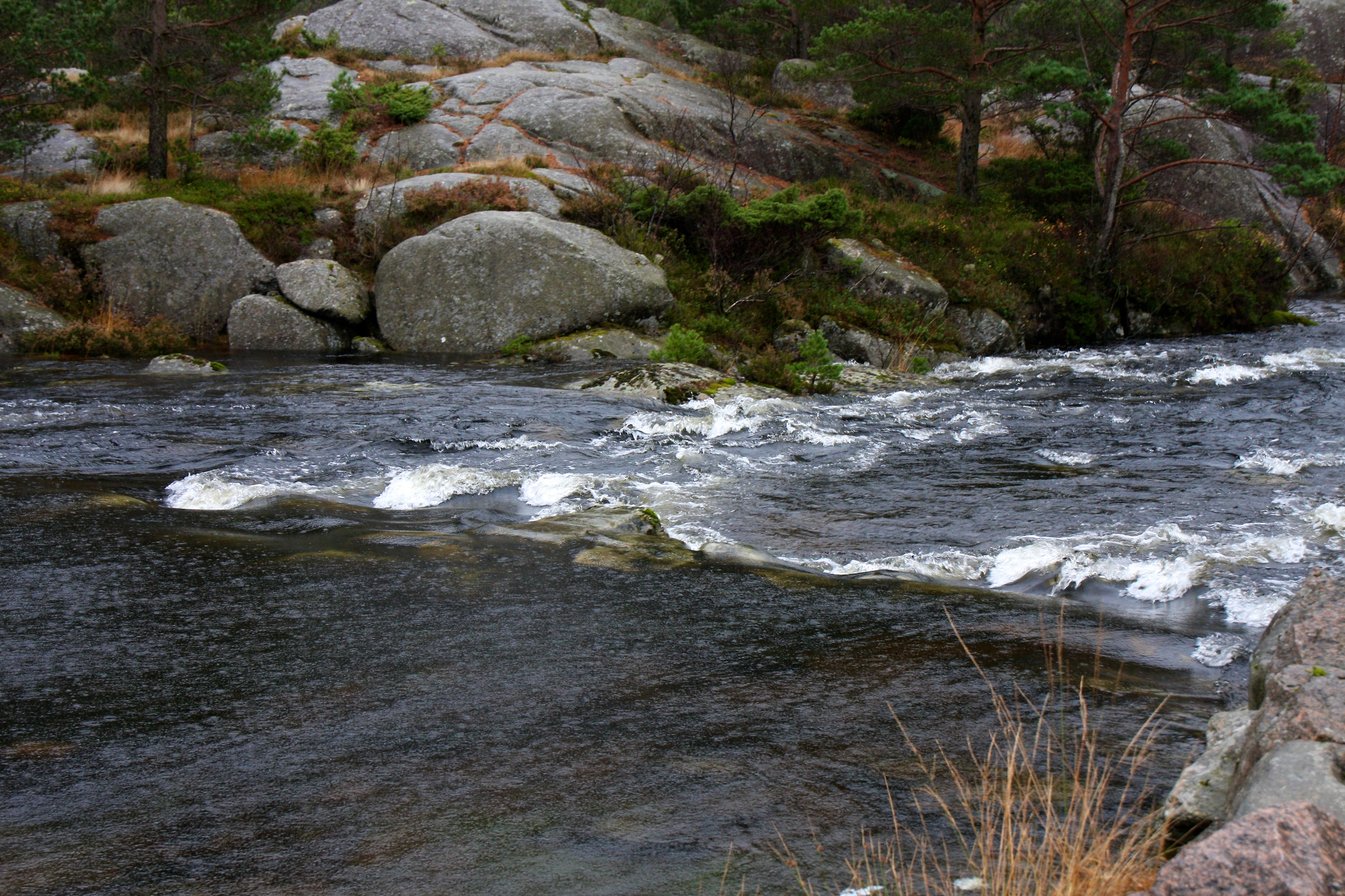 Gulen municipality, Norway.